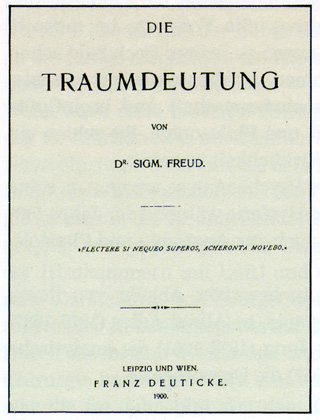 Title page of Freud's book Die Traumdeutung